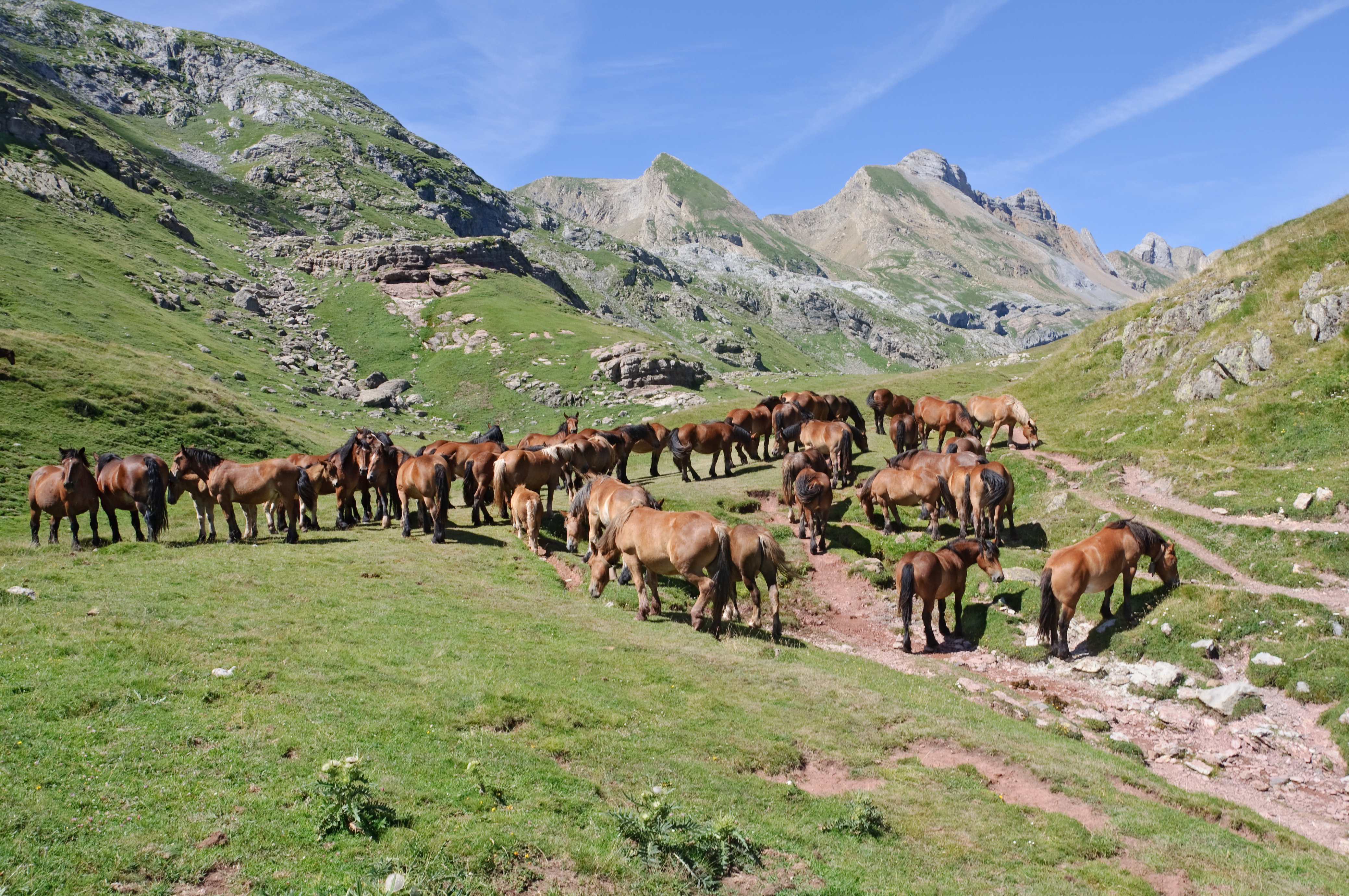 Herd of horses on summer mountain pasture in the Pyrenees, near the lake of Estaens (Ibón de Estanés).